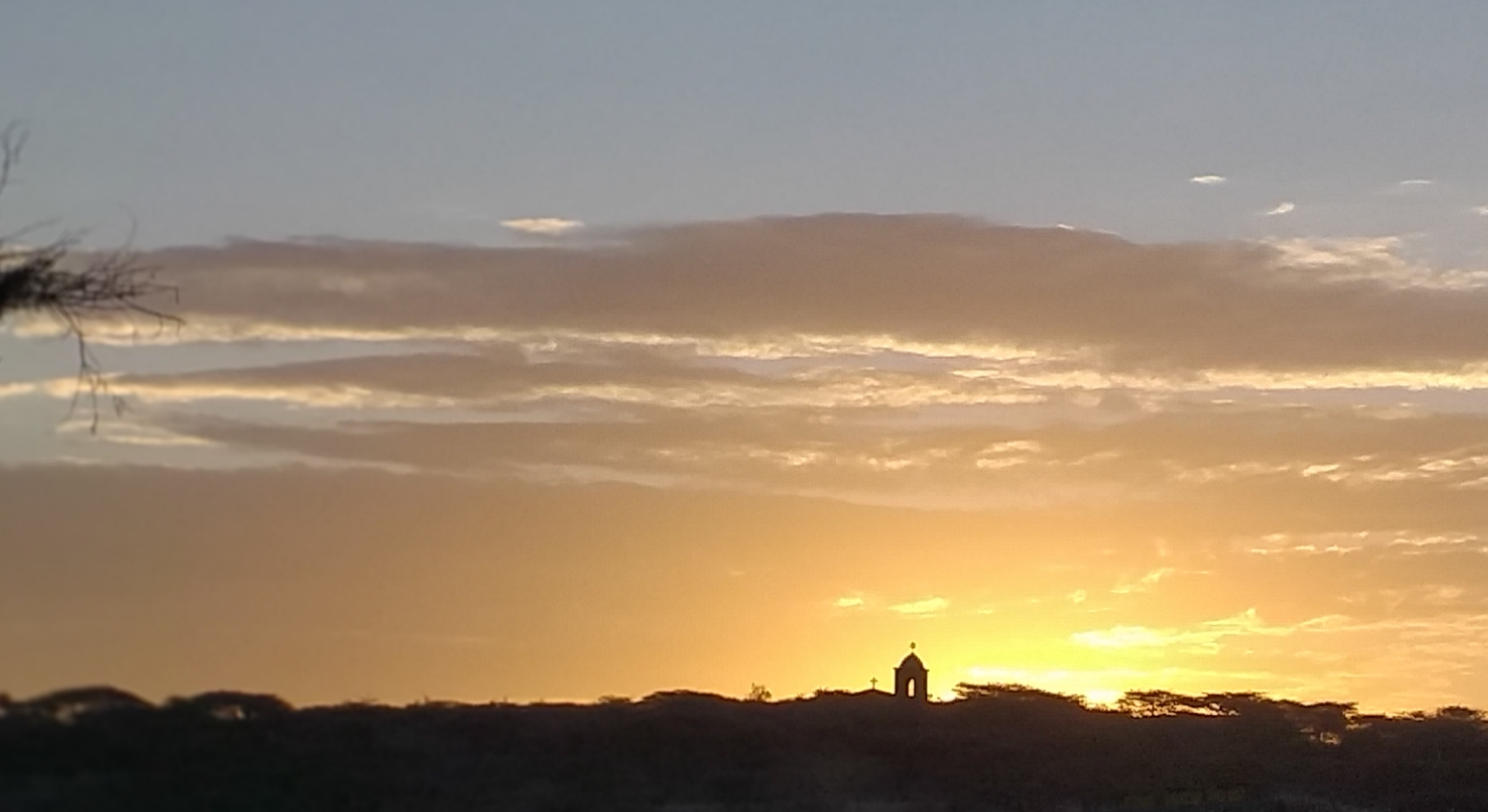 A church found on mojntains which backgrouned by a su sunset at Sodere resort found 150 KM from Ethiopian capital city Adiss Ababa This is an image with the theme "Africa on the Move or Transport" from: Ethiopia